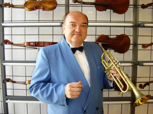 This is Bernard Soustrot musician